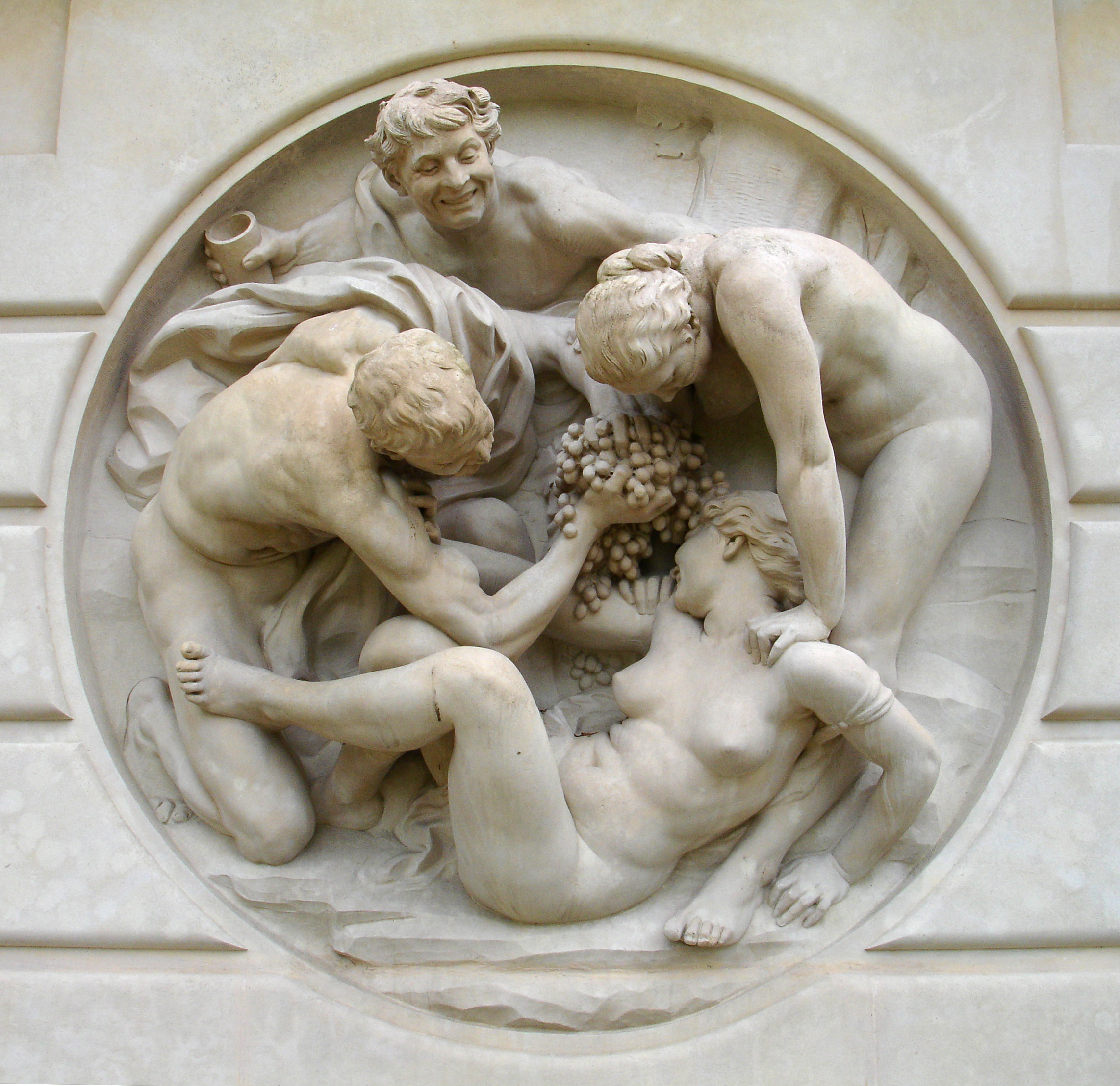 Bacchanale by Jules Dalou. The plaster was exhibited at the Salon of 1891. Located at the center of the fountain of the Greenhouses Garden of Auteuil in Paris, Tercé stone, circa 1895 - 1898.